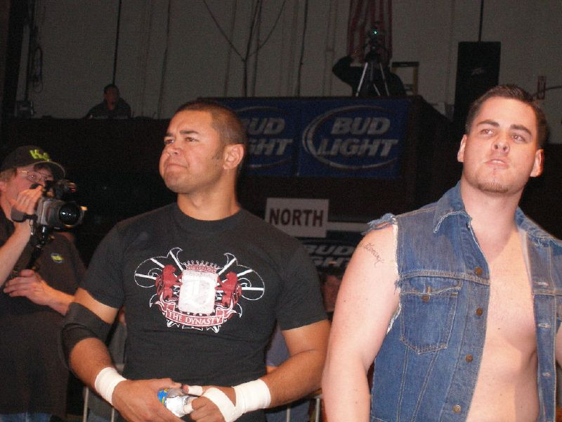 Arrogance (Scott Lost (left) and Chris Bosh (right)) at Chikara Night #3 in Philadelphia, PA on February 18, 2007.